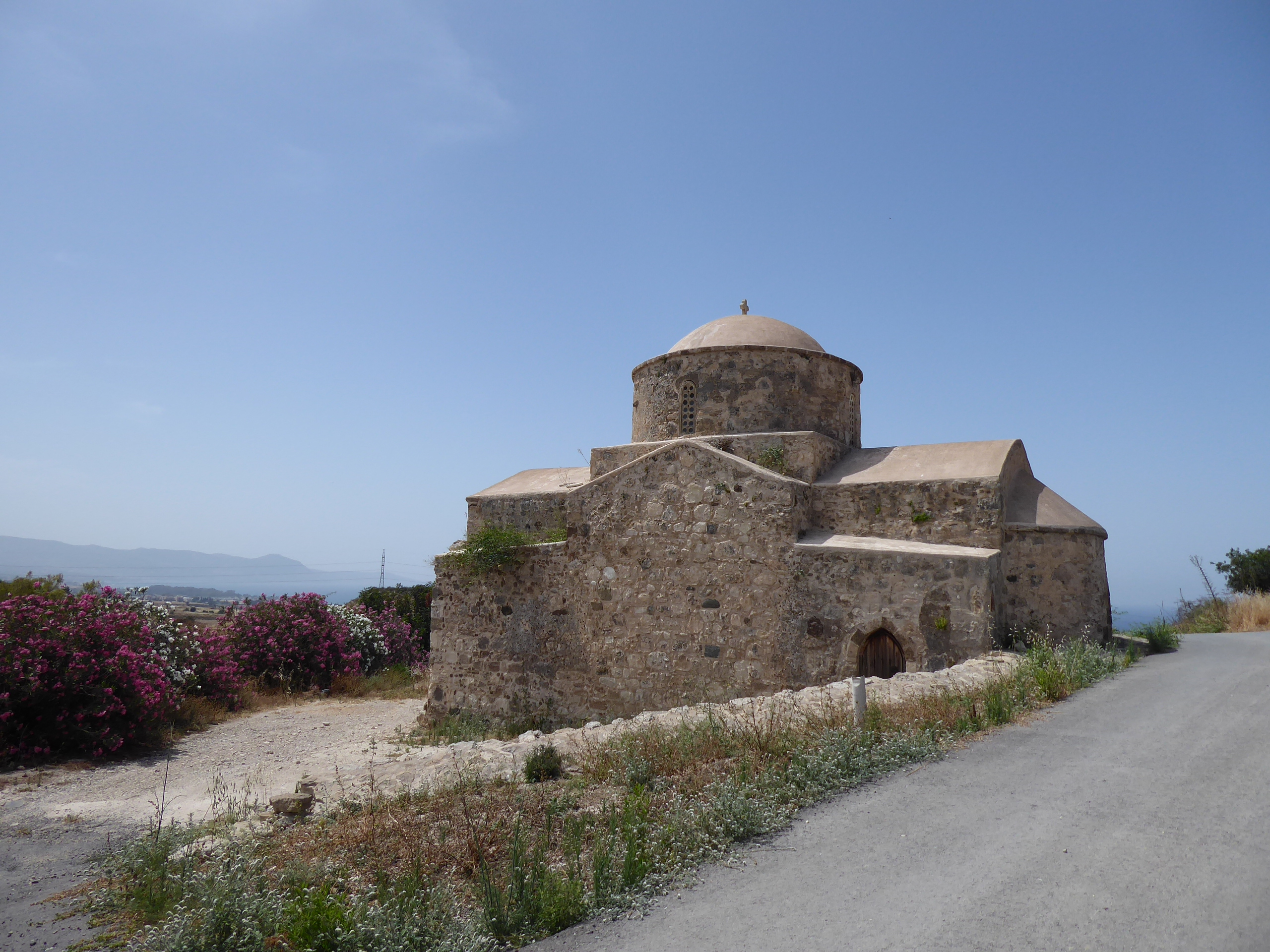 Panagia Chorteni, Pelathousa